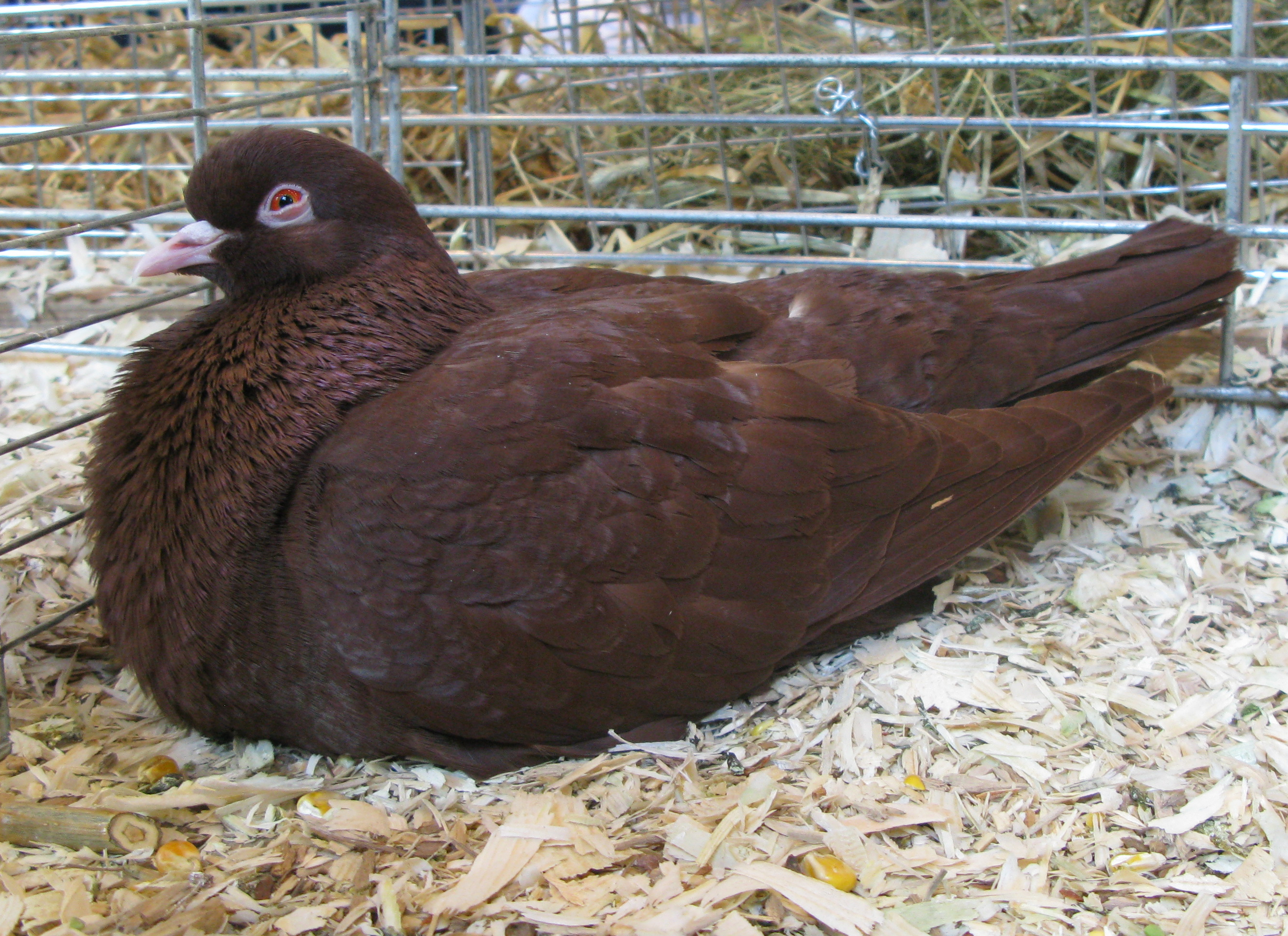 Fancy pigeon (columba livia), Red Carneau breed, sitted, at Paris International Agricultural Show.